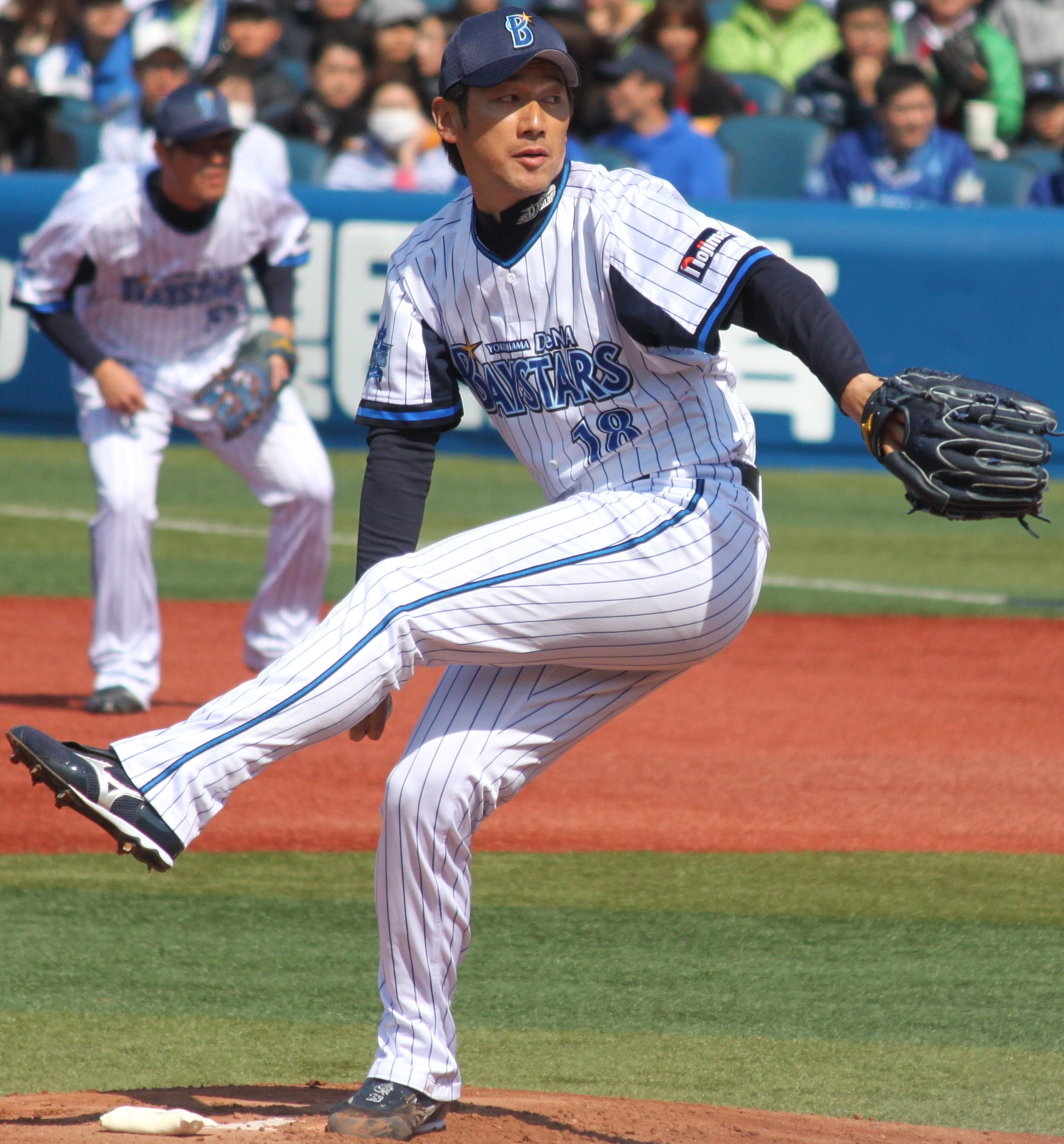 Daisuke Miura, pitcher of the Yokohama DeNA BayStars, at Yokohama Stadium.